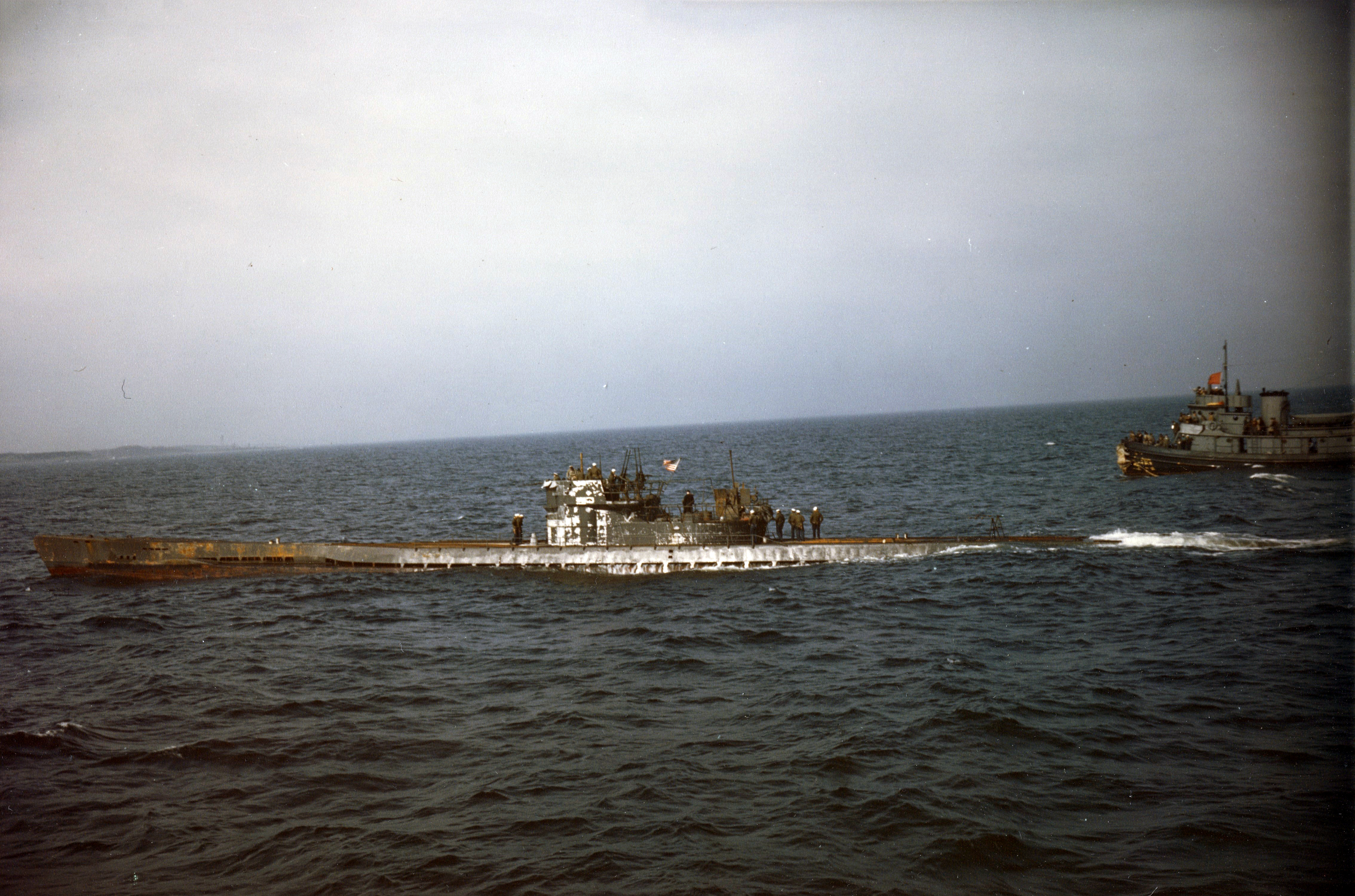 The surrendered German Type IXC/40 submarine U-805 is escorted to the Portsmouth Naval Shipyard, New Hampshire (USA), on 14 May 1945.